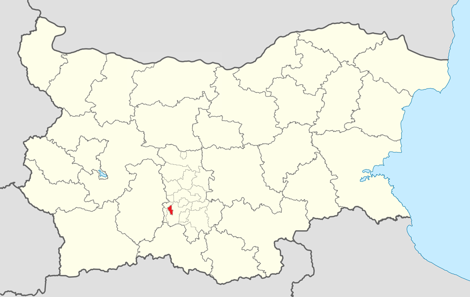 Location map of Perushtitsa Municipality within Bulgaria and Plovdiv province